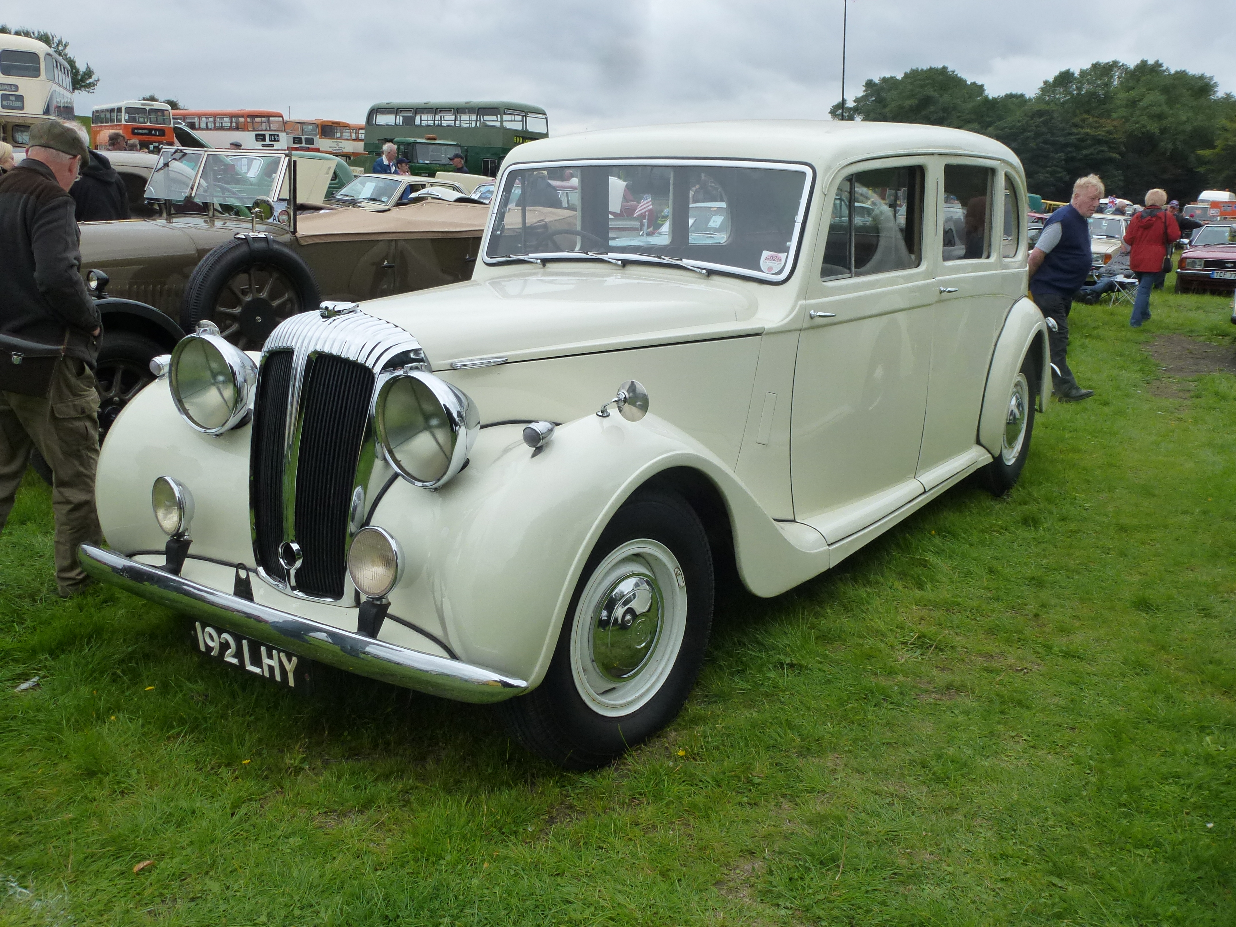 Daimler Twenty-seven DE27 six-light limousine 1947 Seen here at Heaton Park on Sunday 1st September during the annual Trans Lancs Rally event. Bristol registration. This is not on the DVLA Computer.